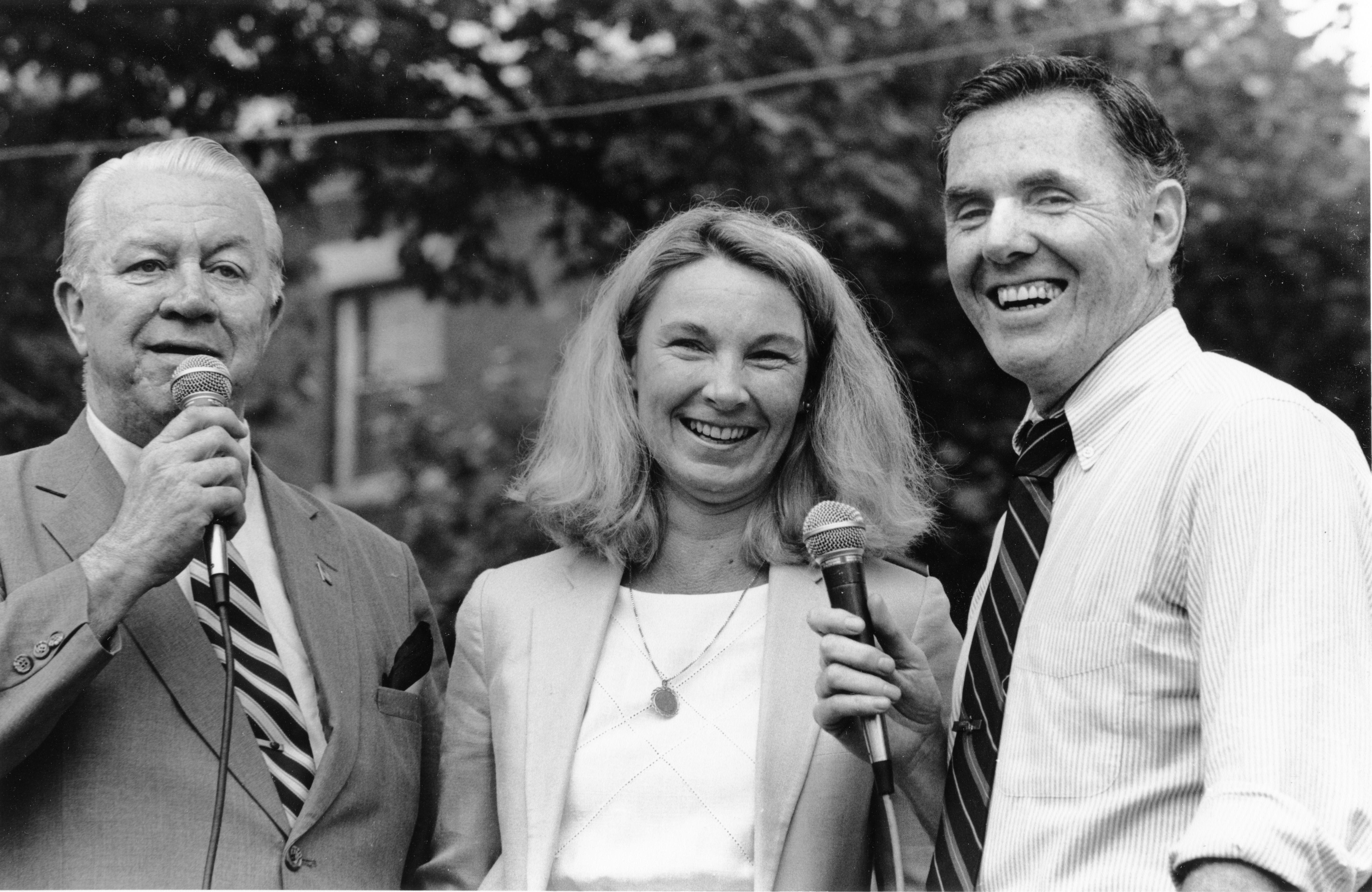 Title: Councilor Albert L. "Dapper" O'Neil, Councilor Maura Hennigan, Mayor Raymond L. Flynn Creator: Mayor's Office - City Photographer Date: circa 1984-1987 Source: Mayor Raymond L. Flynn records, Collection #0246.001 File name: RF_0648 Rights: Copyright City of Boston Citation: Mayor Raymond L. Flynn records, Collection #0246.001, City of Boston Archives, Boston